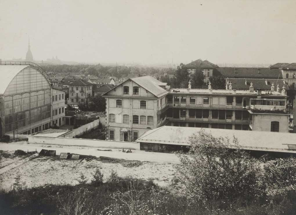 Itala Film studios in Torino, via Luisa del Carretto 44